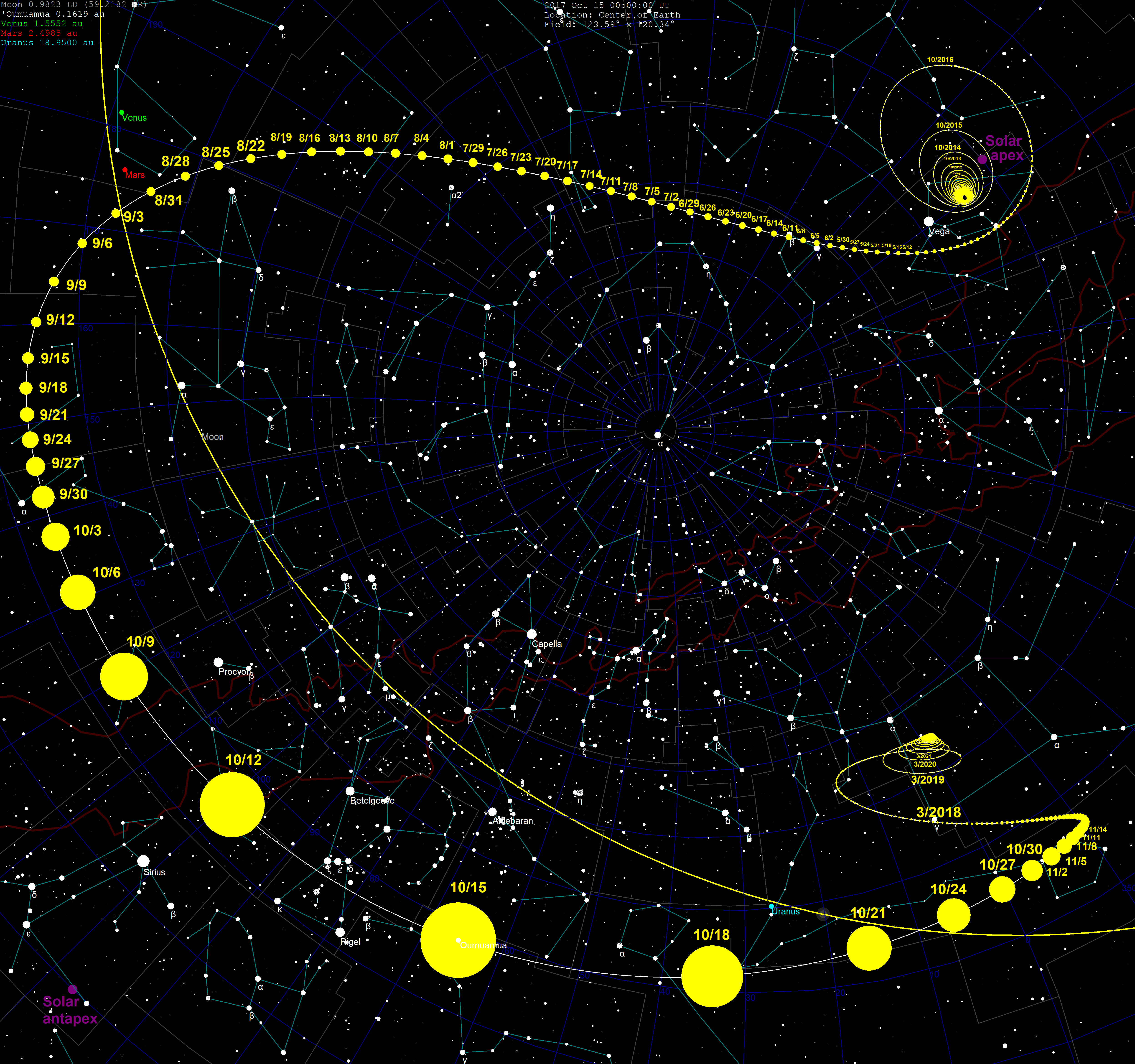 en:1'Oumuamua sky trajectory, 2017, 3 day steps